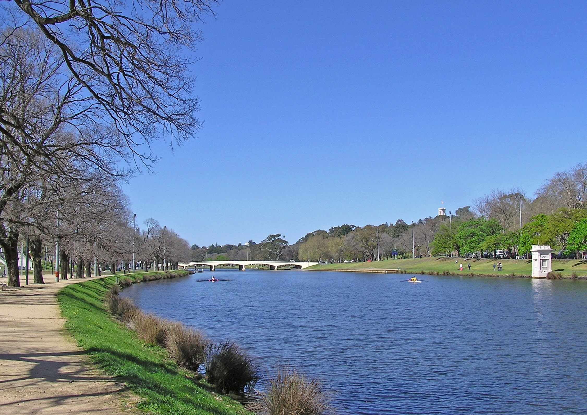 Melbourne Swan Street Bridge & Yarra River